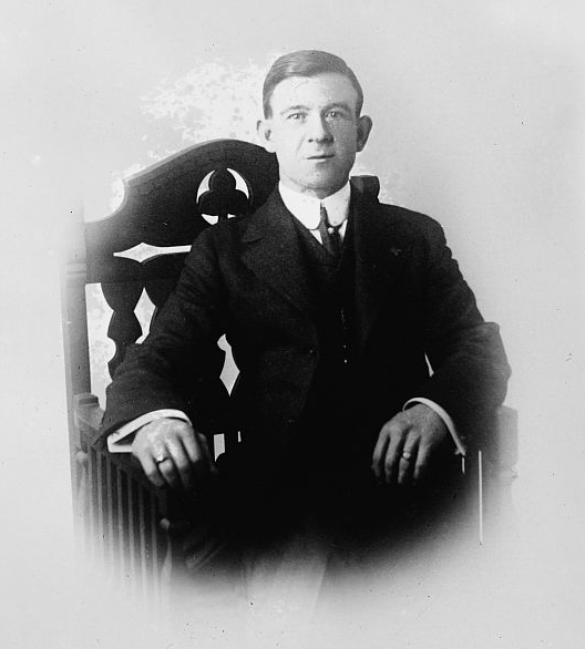 Bain News Service,, publisher. Sport Sullivan in 1914 [between ca. 1910 and ca. 1915] 1 negative : glass ; 5 x 7 in. or smaller. Notes: Title from unverified data provided by the Bain News Service on the negatives or caption cards. Forms part of: George Grantham Bain Collection (Library of Congress). Format: Glass negatives. Repository: Library of Congress, Prints and Photographs Division, Washington, D.C. 20540 USA, General information about the Bain Collection is available at Persistent URL: Call Number: LC-B2- 2969-2